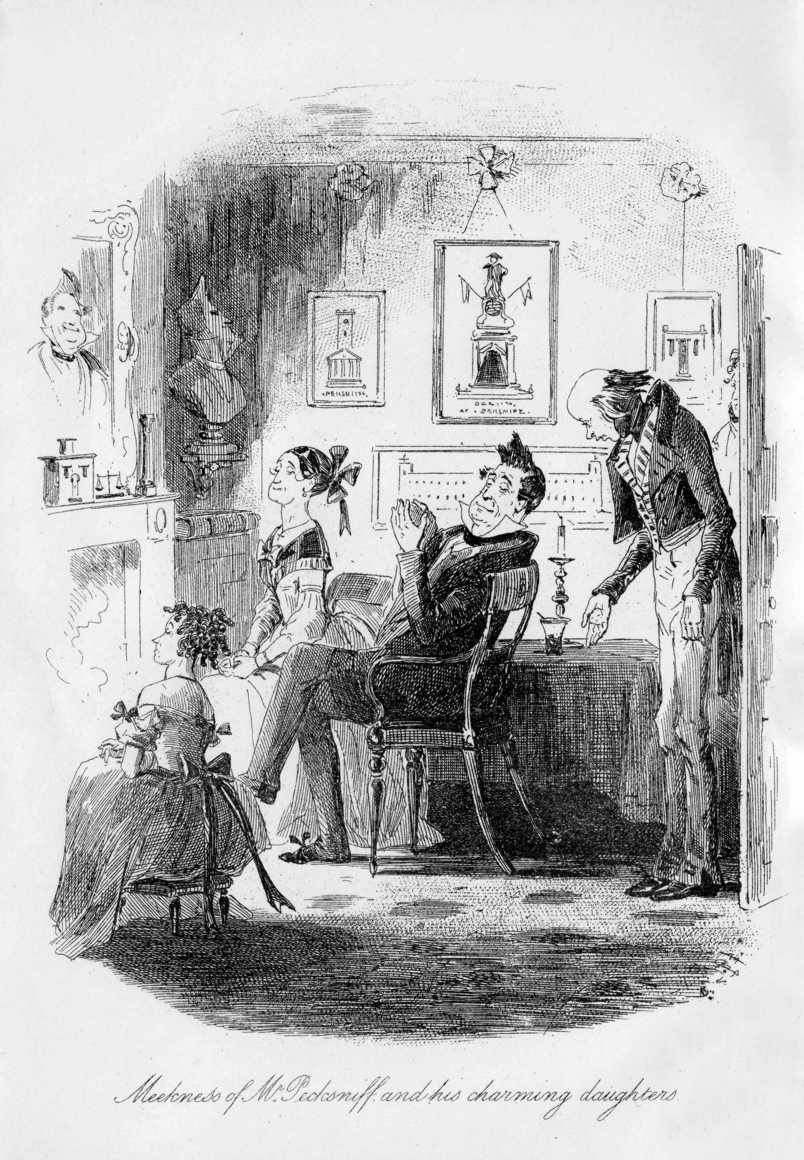 The first illustration from the 1867 Chapman and Hall "Charles Dickens" edition of Martin Chuzzlewit by Charles Dickens